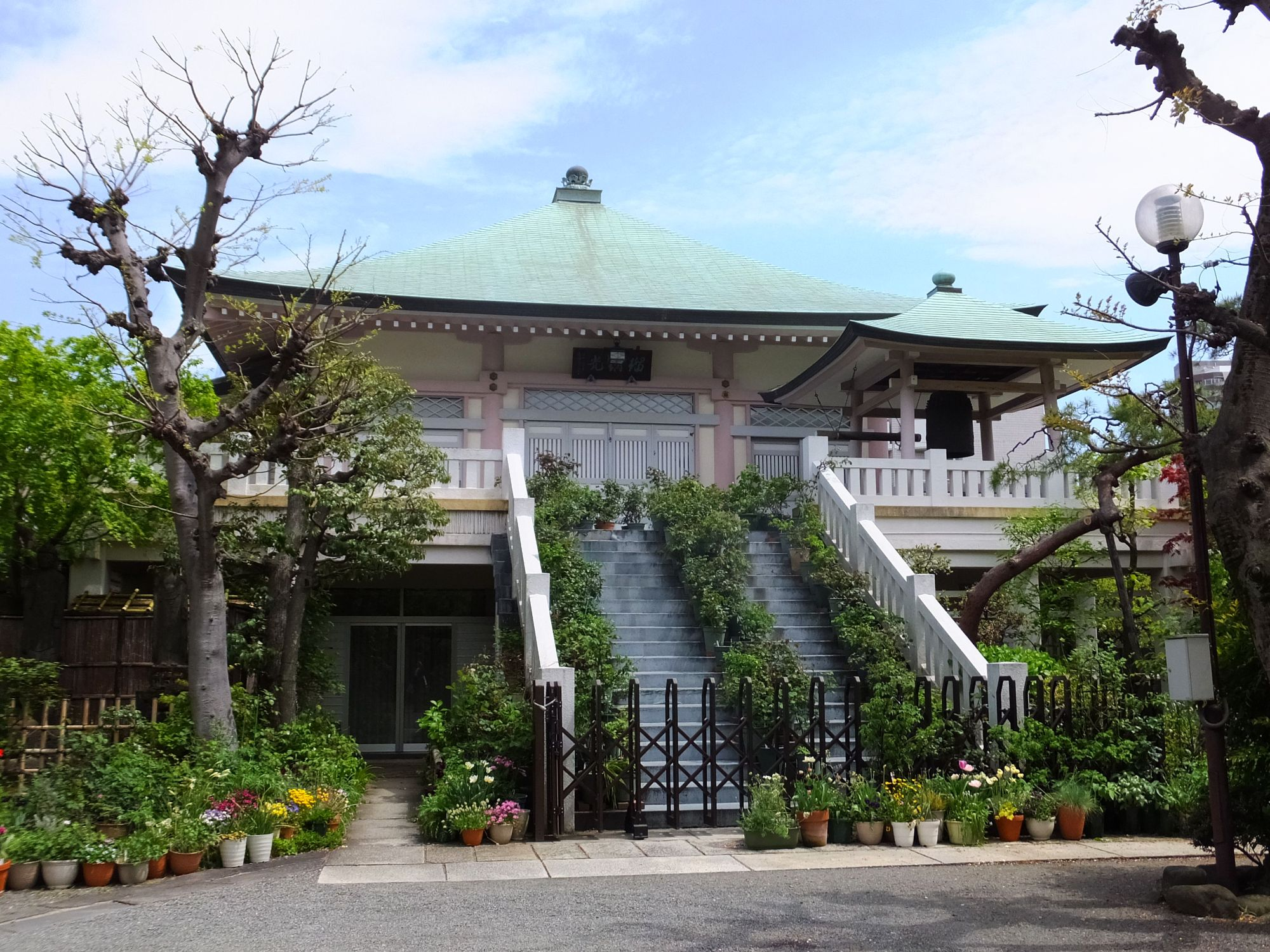 Nanzō-in temple in Toshima, Tokyo